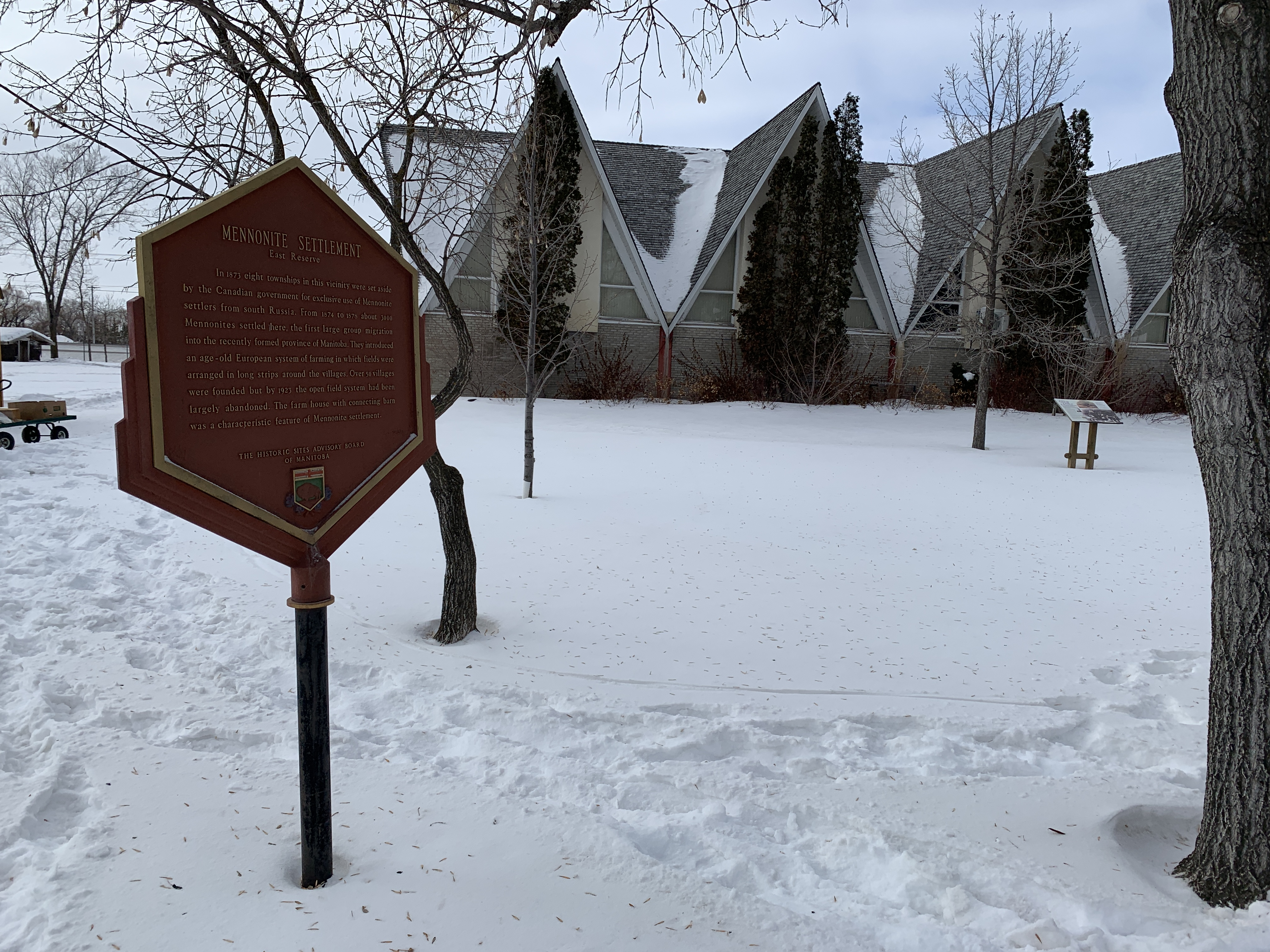 A historic marker noting the East Reserve at the Mennonite Heritage Village in Steinbach, Manitoba, Canada.